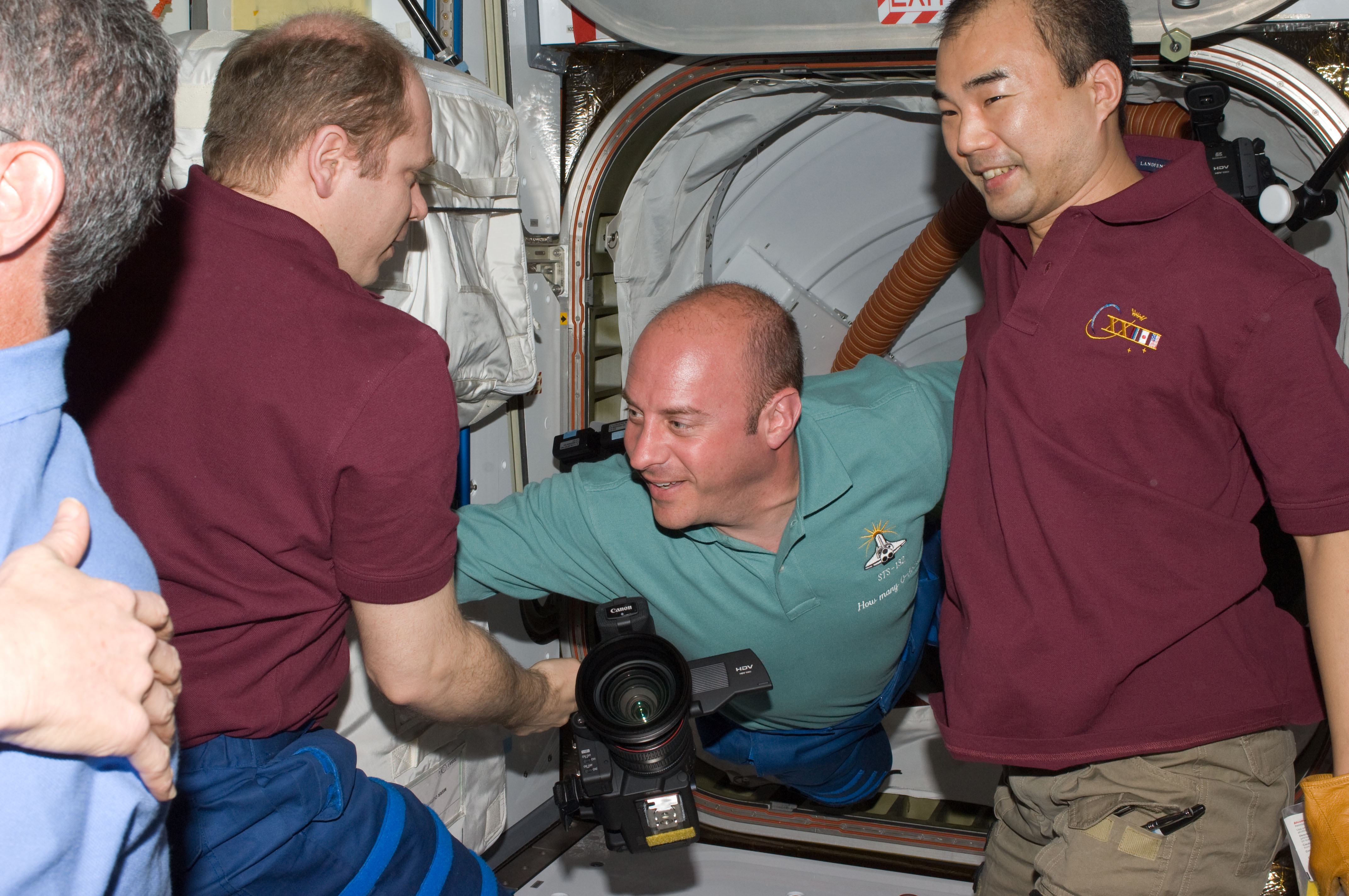 Soon after initial hatch opening, Expedition 23 crew members welcome the STS-132 crew aboard the International Space Station. Pictured are Russian cosmonaut Oleg Kotov (left), Expedition 23 commander; NASA astronaut Garrett Reisman (center), STS-132 mission specialist; and Japan Aerospace Exploration Agency (JAXA) astronaut Soichi Noguchi, Expedition 23 flight engineer.